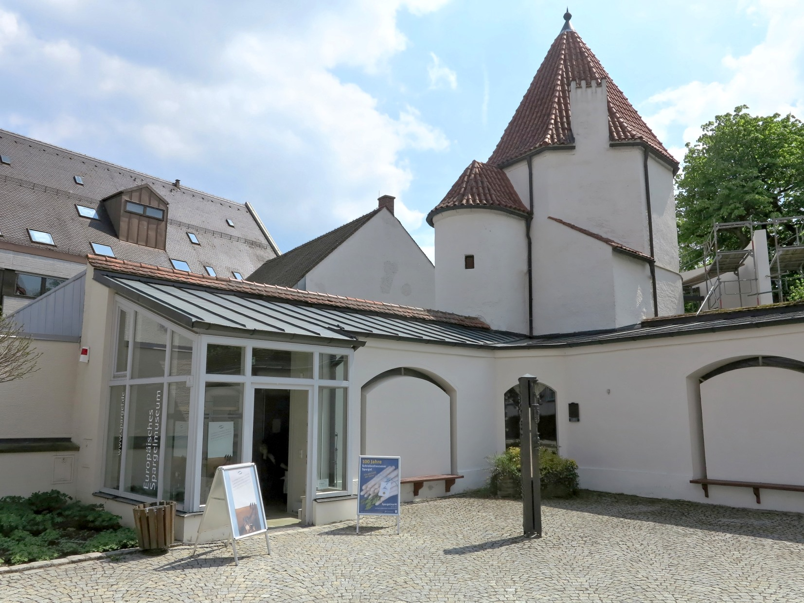 European Museum of Asparagus (Food)